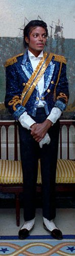 Michael Jackson visits White House. May 14, 1984